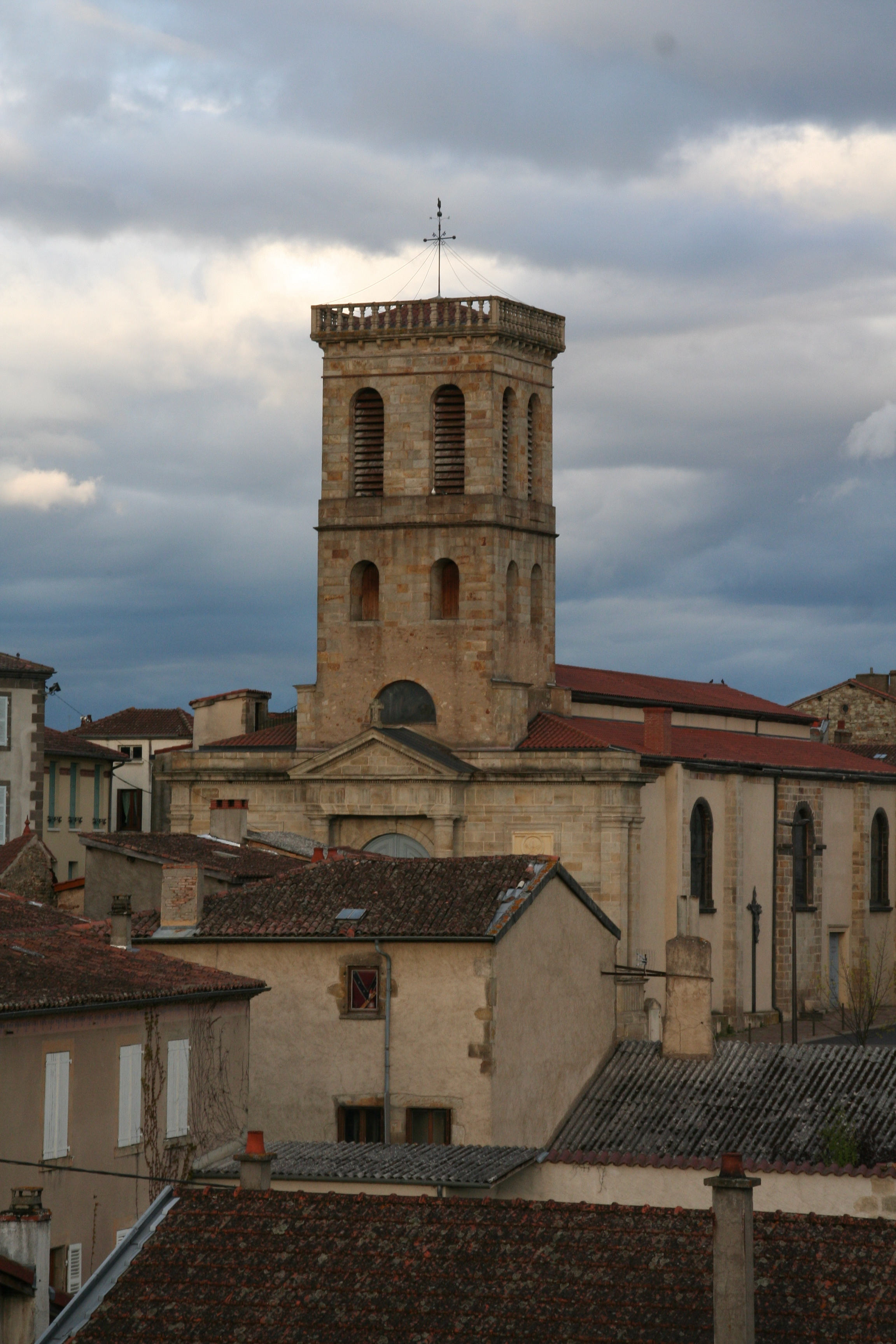 St Pierre, Church Lezoux, France